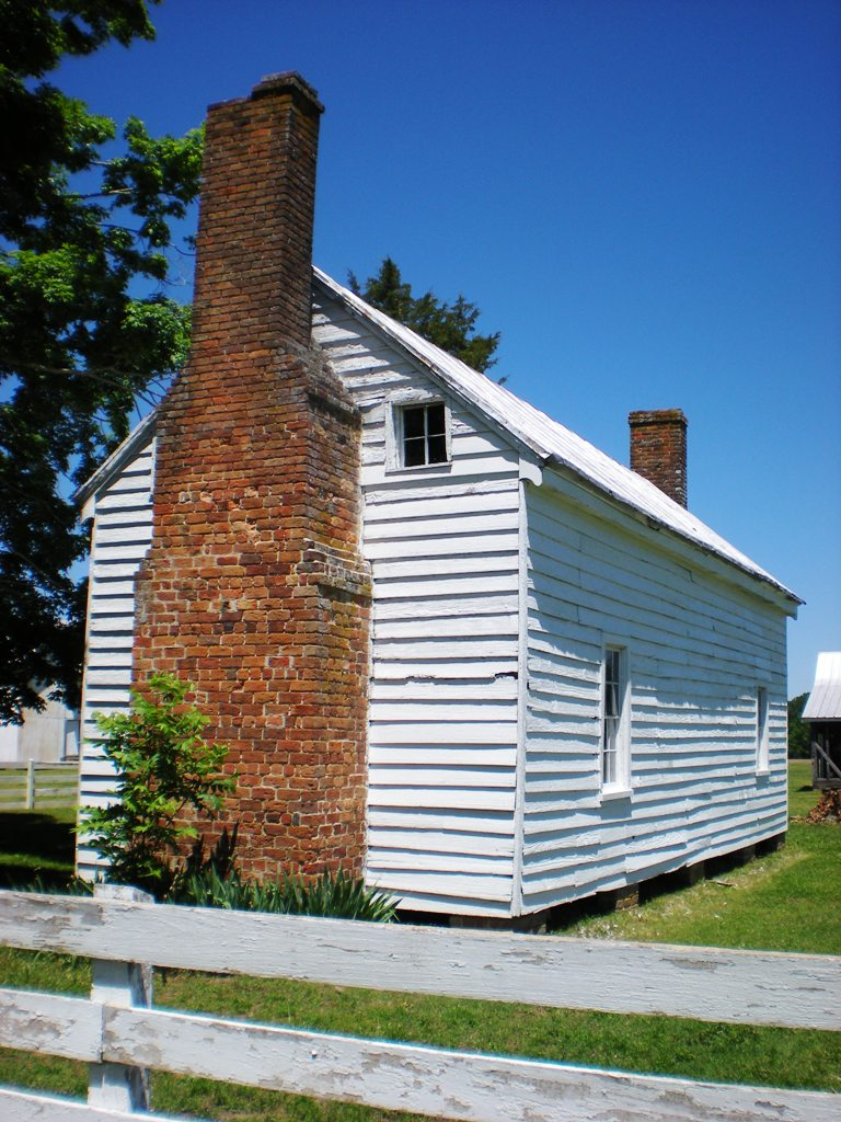 External building at Bacon's Castle